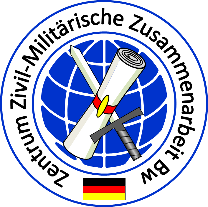 Internal coat of arms of the Bundeswehr (Armed Forces of the Federal Republic of Germany). → Remarks on naming and categorization scheme